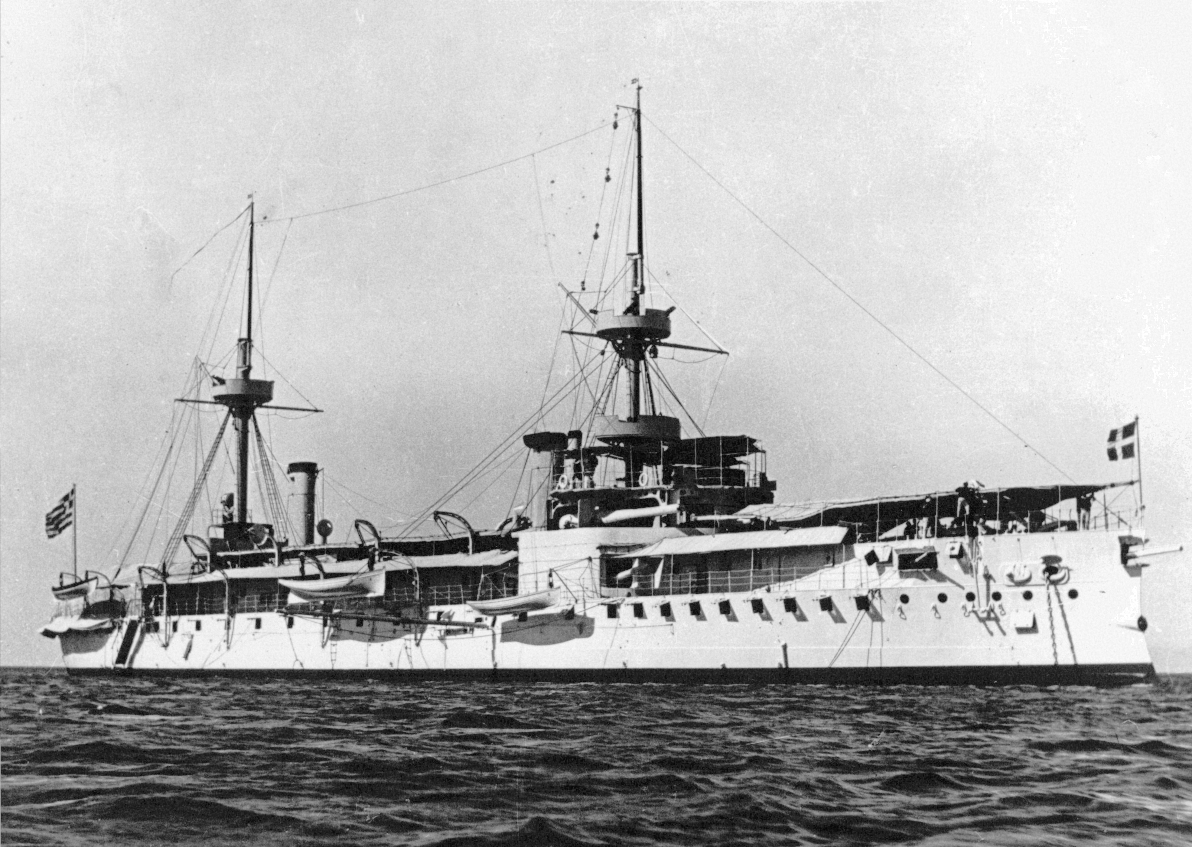 Hydra ironclad warship (Greek Navy 1885-1922)